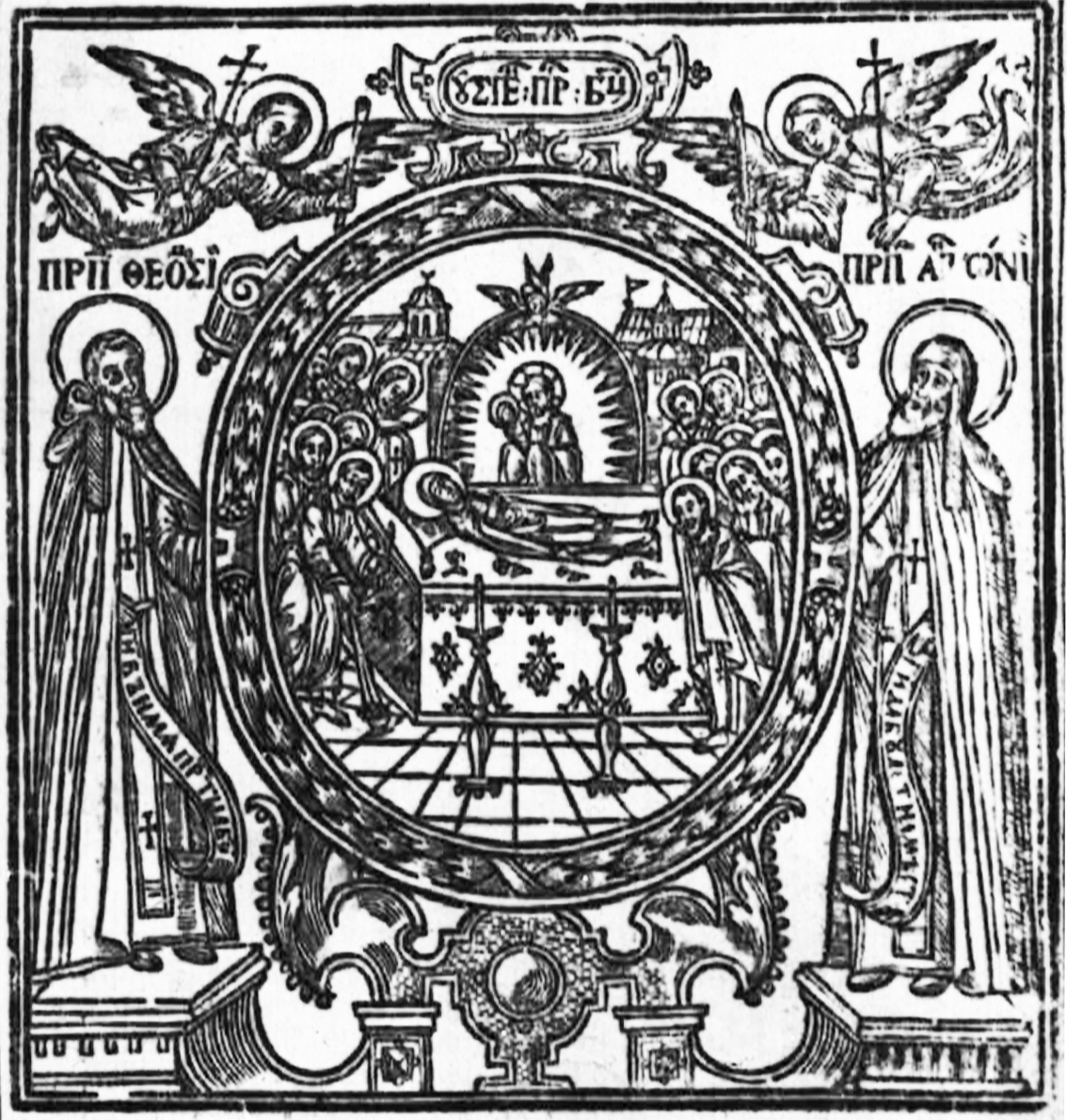 Anthony and Theodosius. Athanasius Kalnofoysky "Teraturgema", 1638.